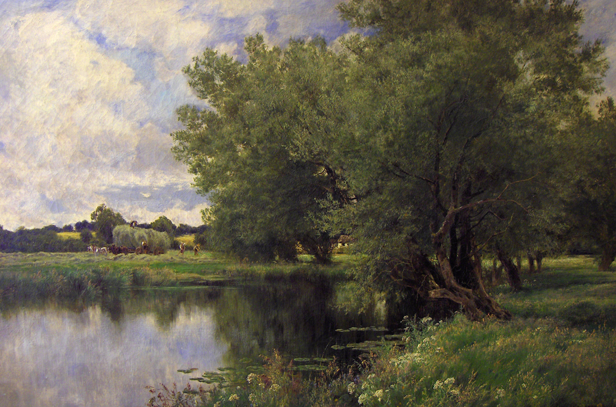 "Haymaking on the Thames" by John Clayton Adams, late 19th century